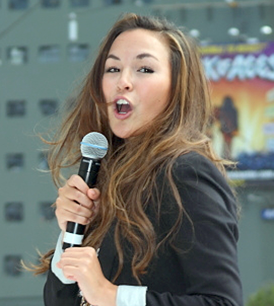 Gemma Pranita at the Cotton On Fashion Parade. Photo taken by Don Oliver at Federation Square, Melbourne on 19 March, 2011.